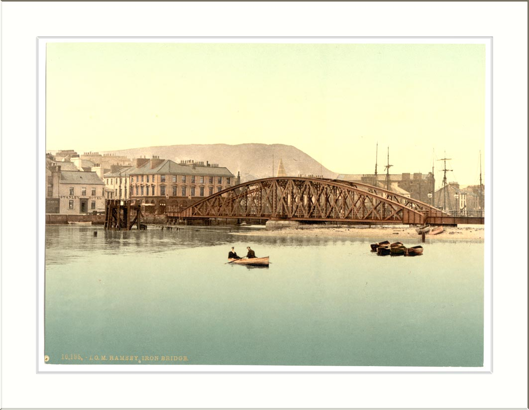 Ramsey iron bridge Isle of Man England